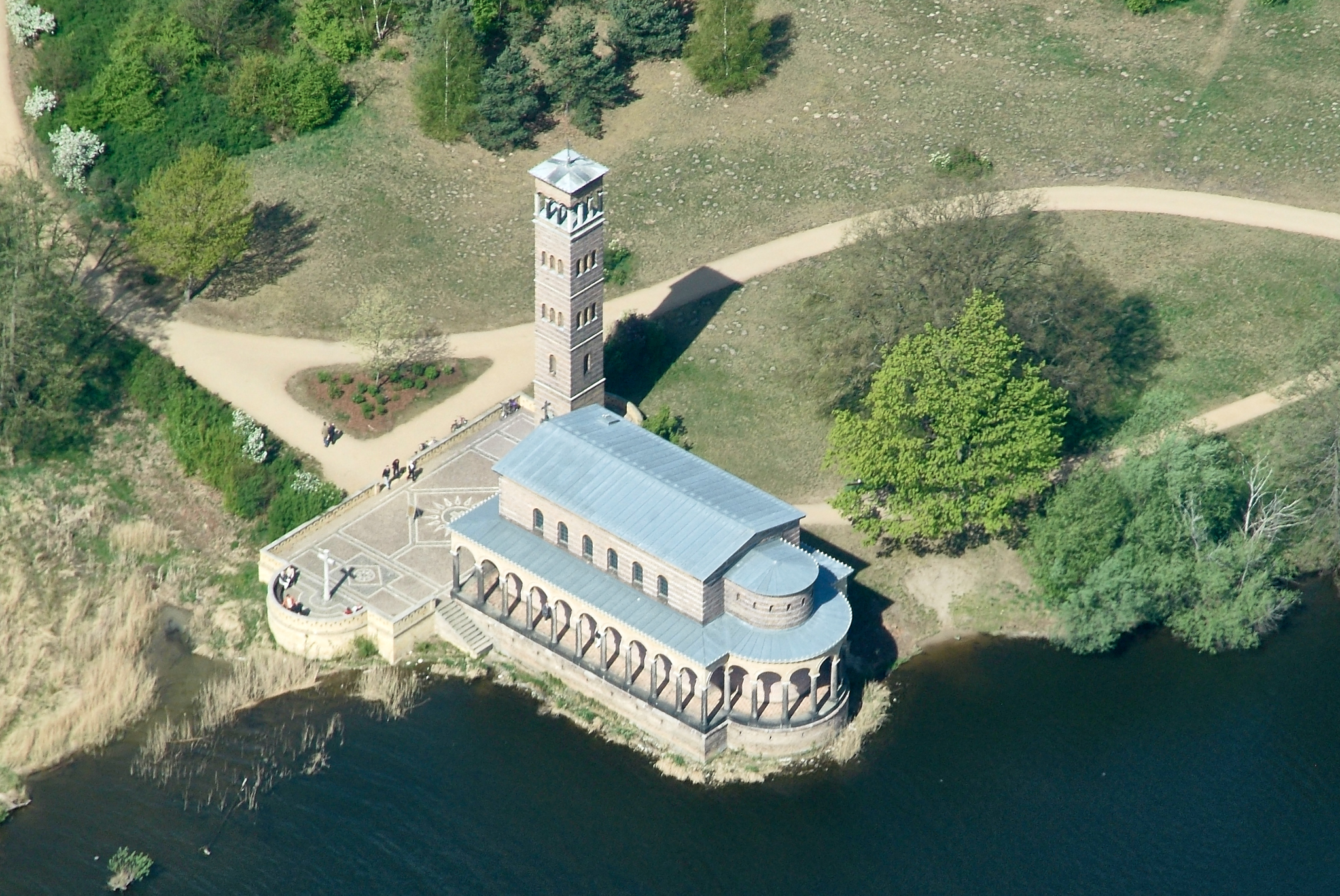 Aerial view